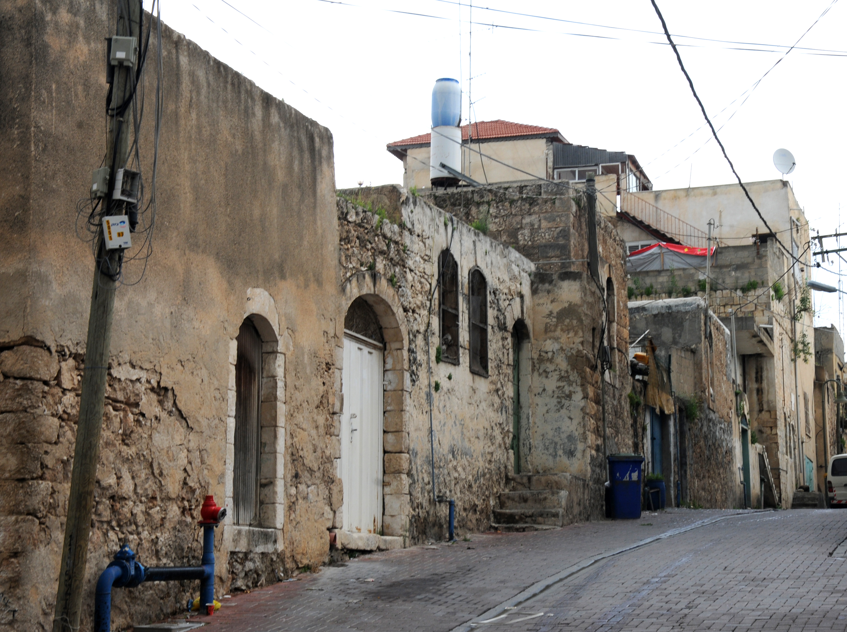 An old narrow passageway, Geography of Israel